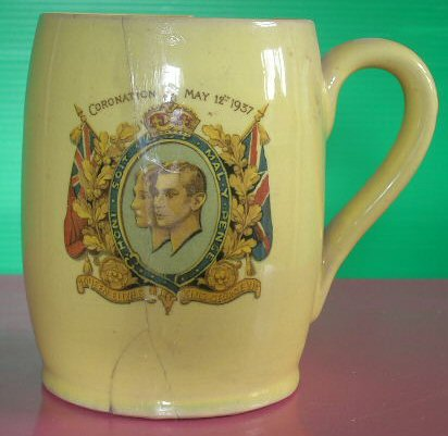 ספל לציון הכתרת המלך גורג ה 6